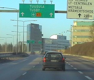 A sight of the motorway Helsinki–Tuusula (direction North/Tuusula)